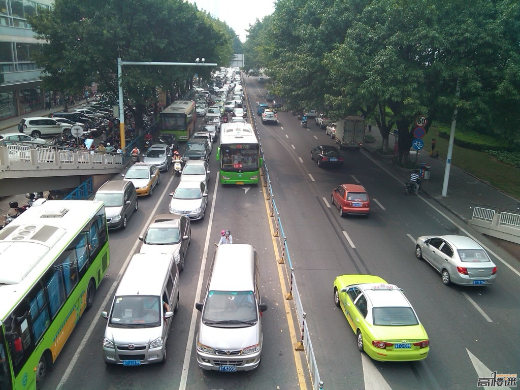 Zhongshan rush hour